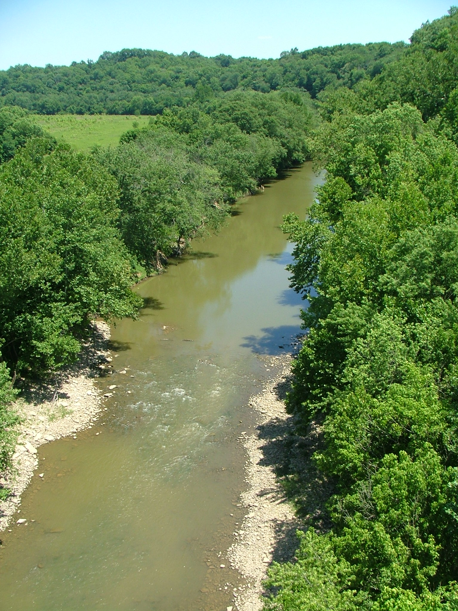 The Licking River from US 68 bridge near Blue Licks Battlefield State Park